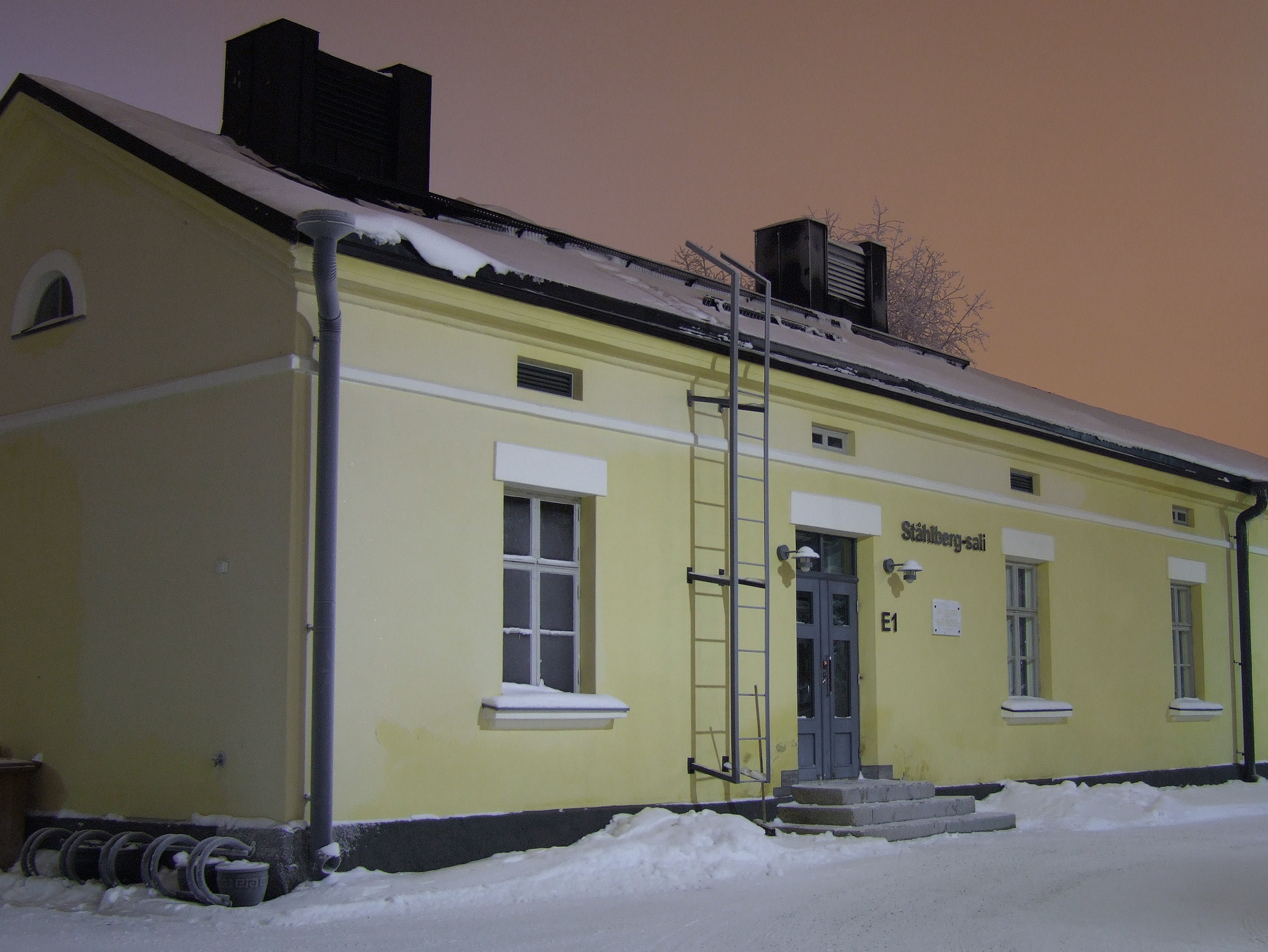 Ståhlberg conference room of the Lasaretti Hotel. The first president of Finland, Kaarlo Juho Ståhlberg lived here while attending school in Oulu. The house was built in 1828.